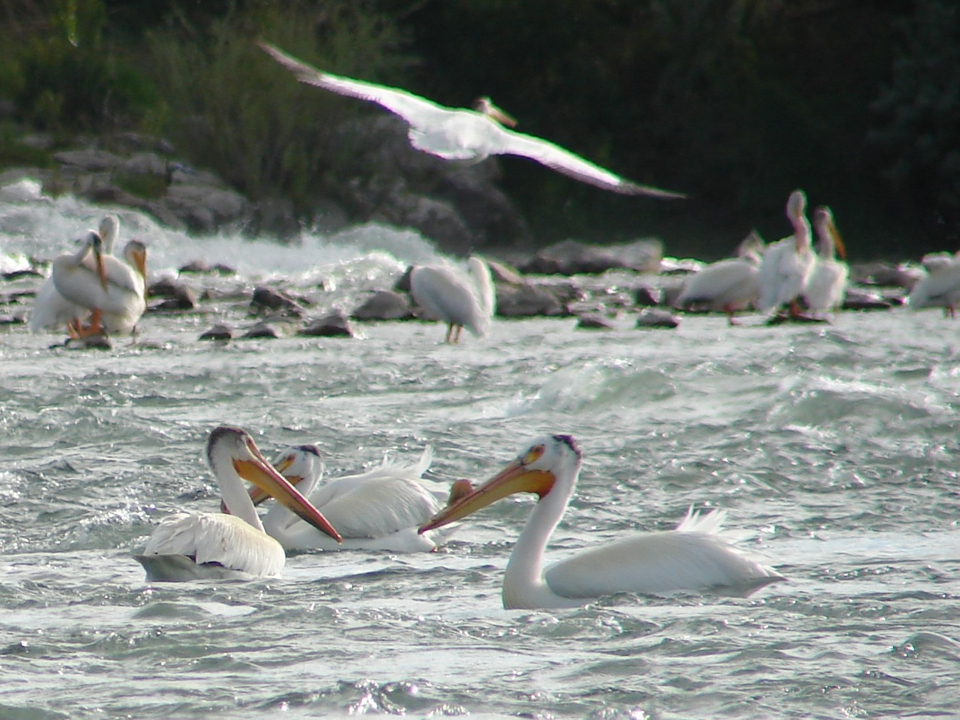 American White Pelicans at Minidoka Dam.